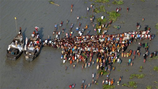 This photo, supplied the U.S.Navy, shows Bangladeshi citizens, devastated by the November 15 cyclone, lining up to receive aid provided by boat in a hard to reach area of southern Bangladesh November 24, 2007, as seen from a U.S. Marine Corps aid helicopter. [AP Photo/ U.S. Navy- Marine Corps Sgt. Ezekiel R. Kitandwe]